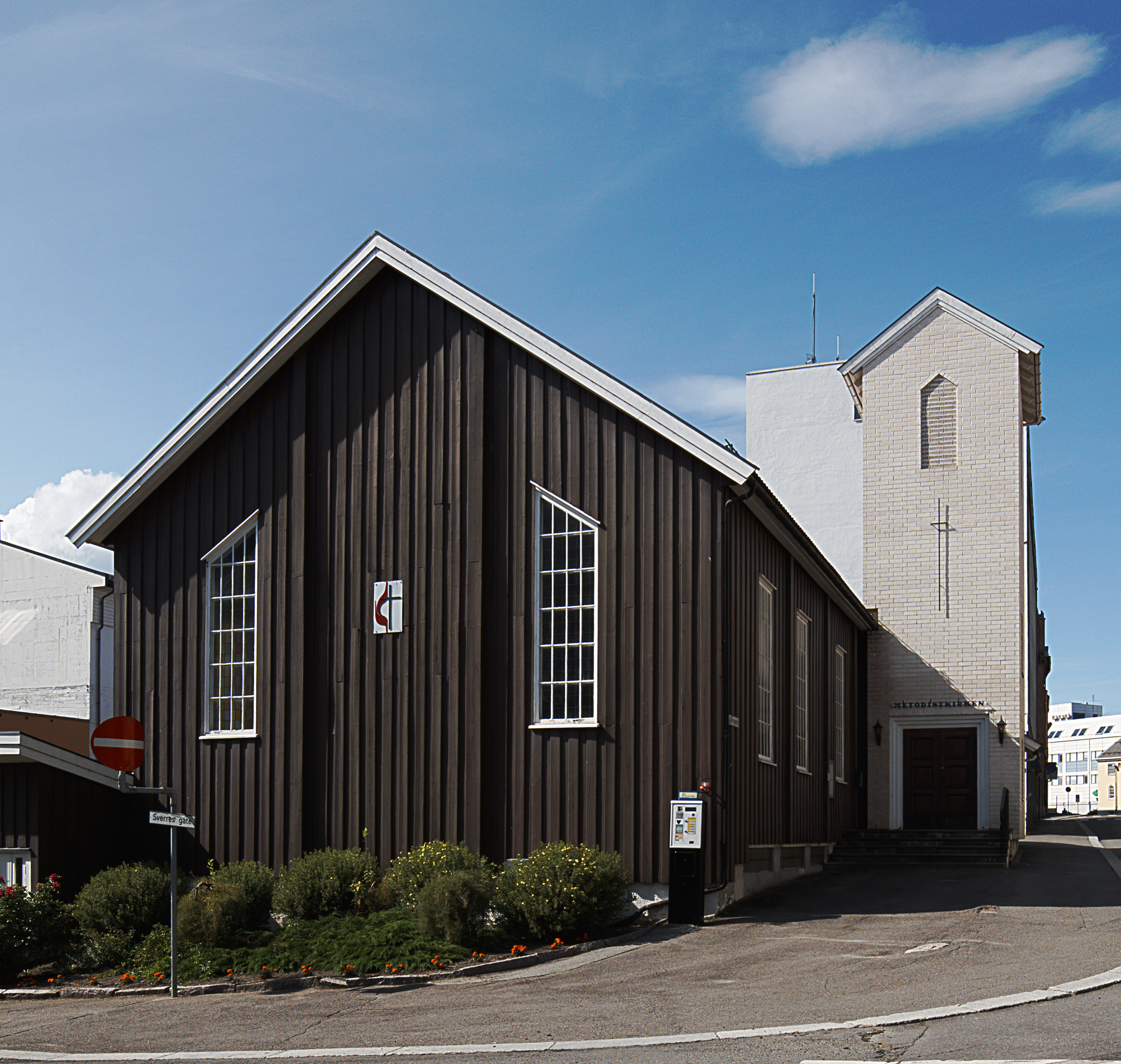 United Methodist Church, Hamar, 2014